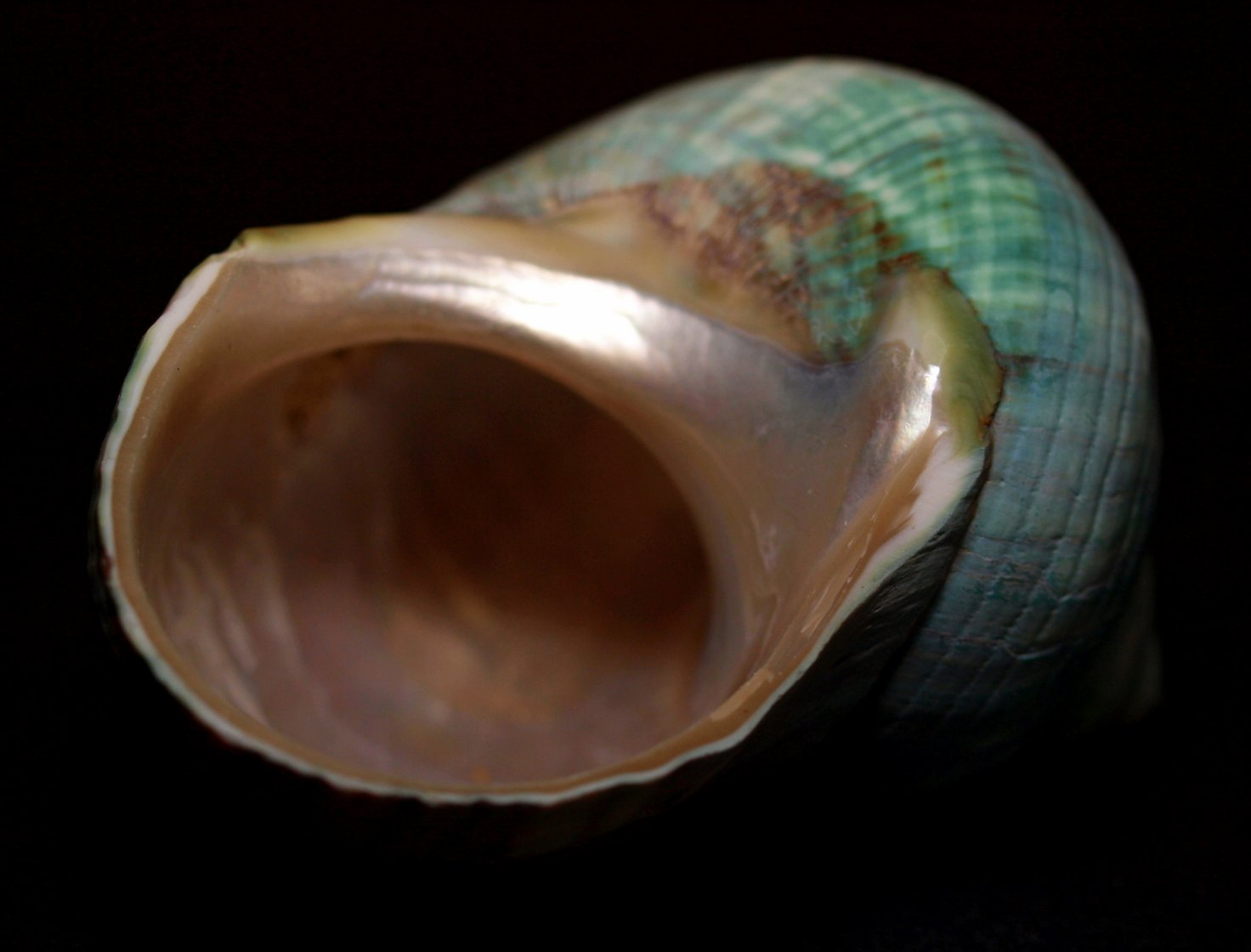 Green Turban, Great green Turban. Shell exterior polished, outer lip smoothed.